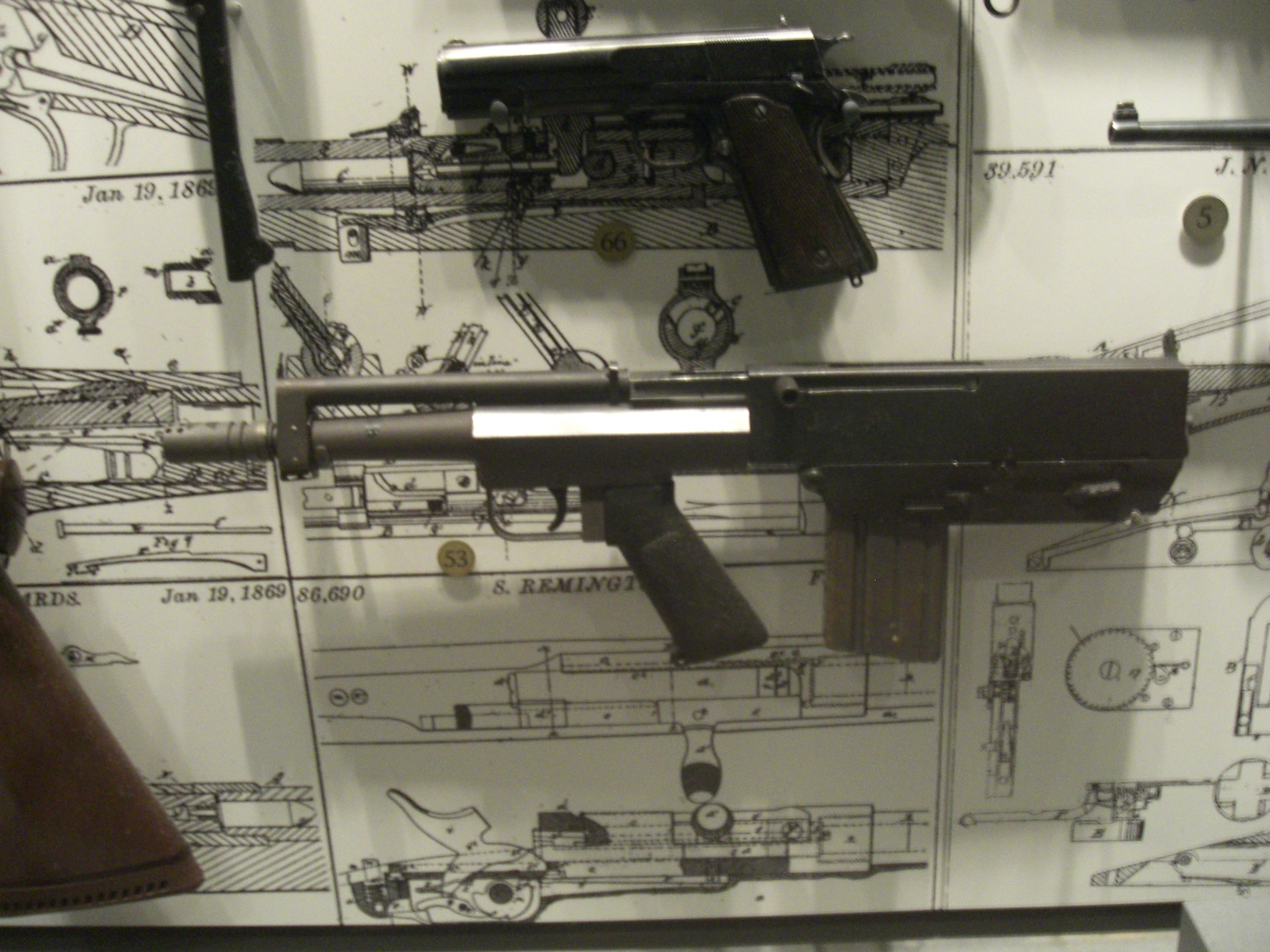 A Gwinn Arms Bushmaster bullpup pistol. Taken at the National Firearms Museum